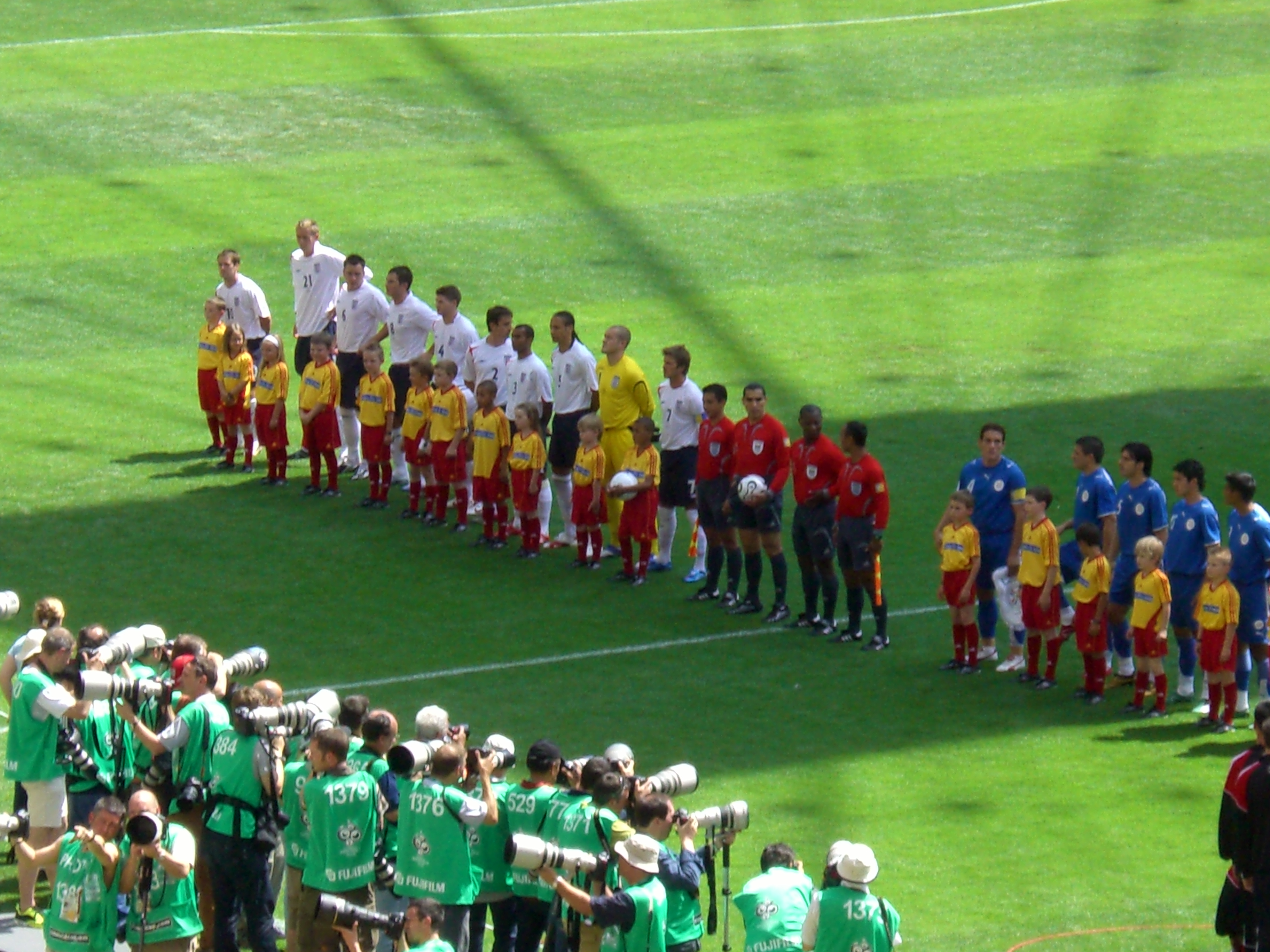 Before England v Paraguay, June 10. From left to right: Owen, Crouch, Terry, Lampard, Gerrard, Neville, Ashley Cole, Ferdinand, Robinson and Beckham. Joe Cole seems to have been spirited away temporarily (or he's tying his laces).